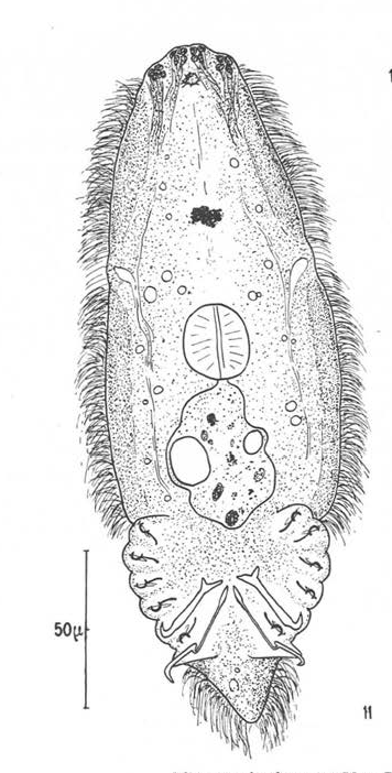 Microcotyle donavini (Microcotylidae) Oncomicracidium From: (1963). "Microcotyle donavini Van Beneden et Hesse 1863 espèce type du genre Microcotyle Van Beneden et Hesse 1863". Annales de Parasitologie Humaine et Comparée 38 (6): 875–886. ISSN 0003-4150. Template:Open access